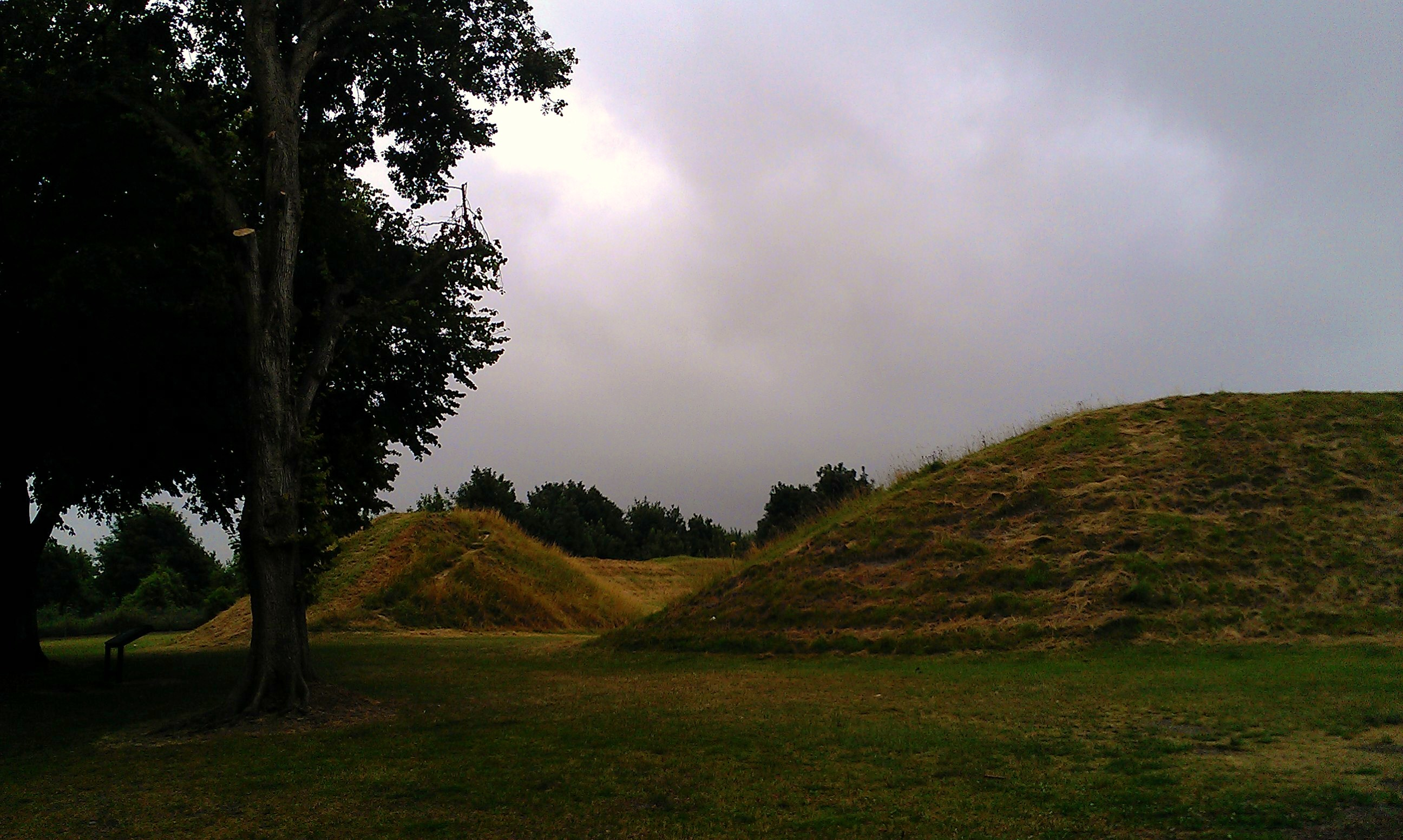 The entrance to the Maumbury Rings Neolithic henge in Dorchester, Dorset.